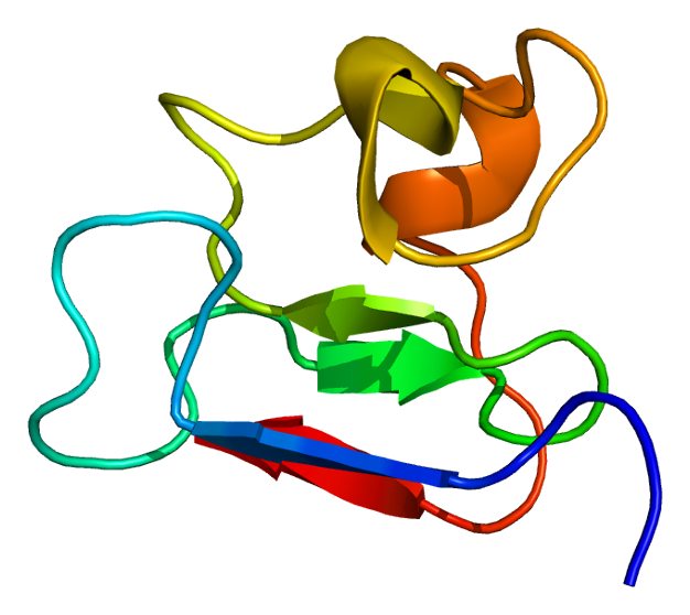 Structure of the PML protein. Based on PyMOL rendering of PDB 1bor.